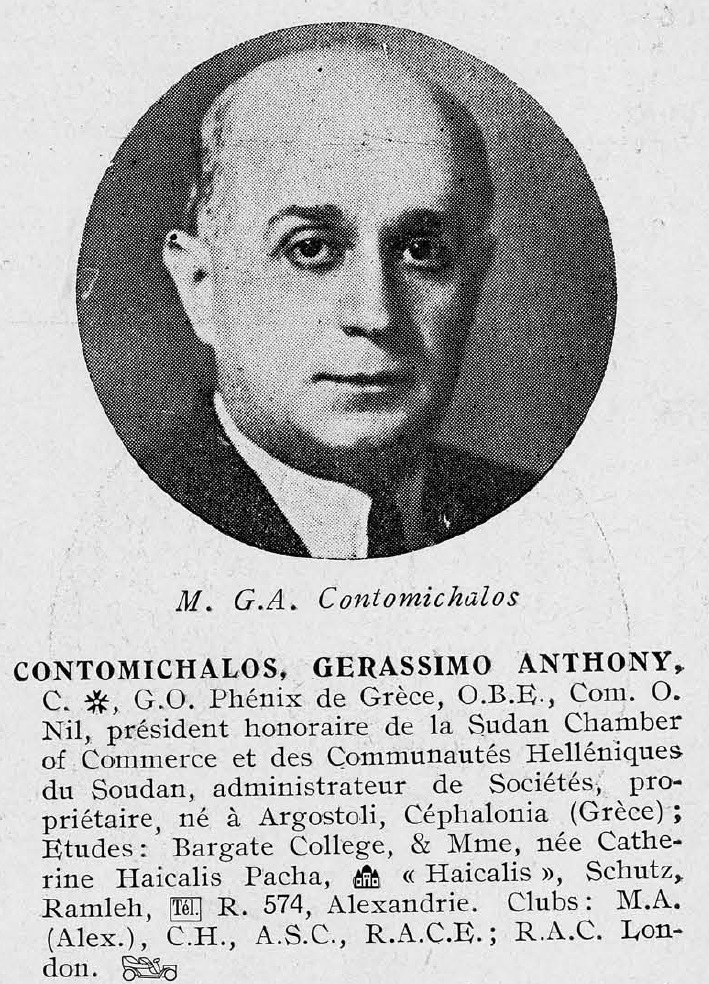 Gerassimo Anthony Contomichalos (Γεράσιμος Αντώνης Κοντομίχαλος) MR. G. A. CONTOMICHALOS, o.b.e., who founded G. A. Contomichalos Ltd. in the Sudan in 1908. From the Greek community in Egypt.